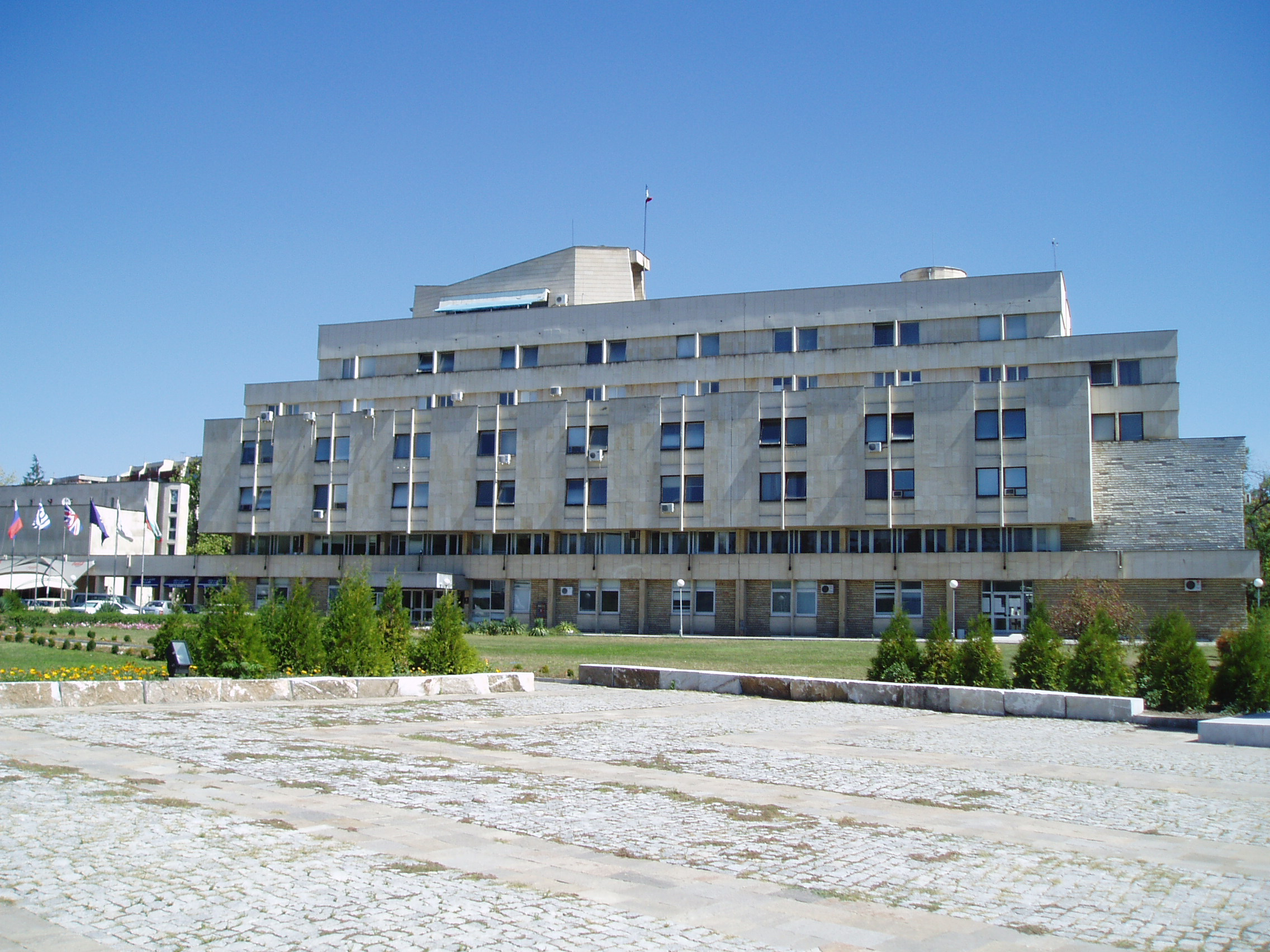 The building of Kardzhali Municipality. Kardzhali, Bulgaria